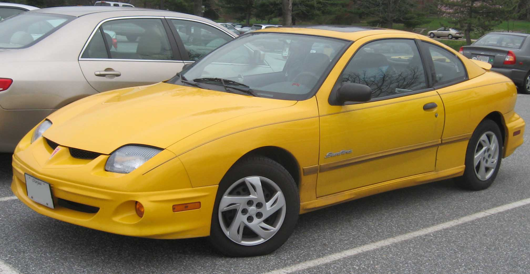 2000-2002 Pontiac Sunfire photographed in College Park, Maryland, USA.